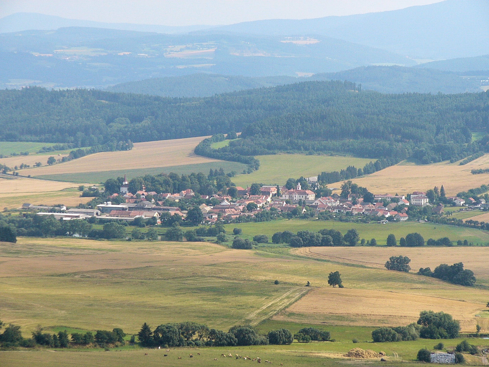 Small town Dub from tower of Helfenburk Castle